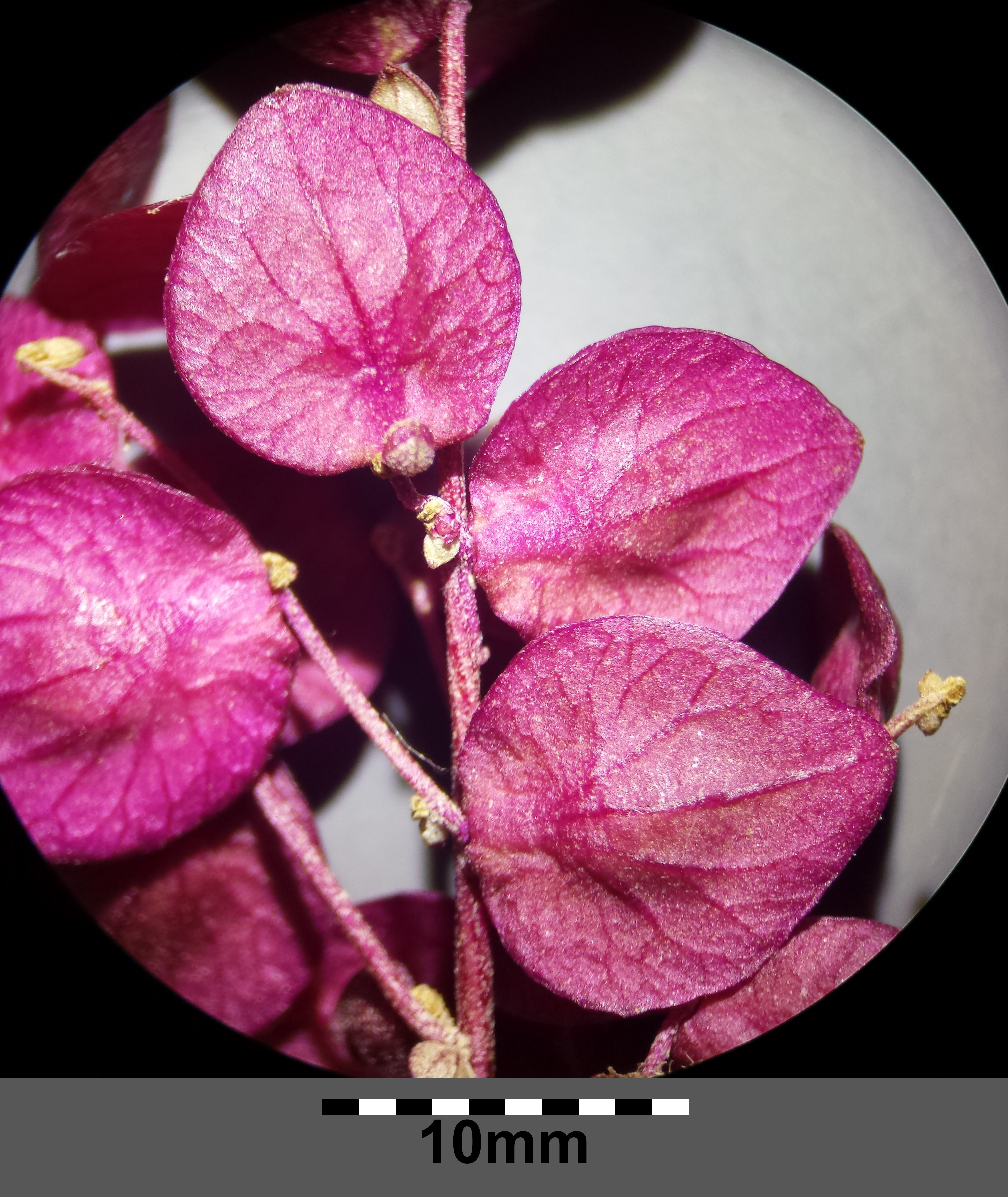 Inflorescence (with predominantly ♀ flowers) Taxonym: Atriplex hortensis ss Fischer et al. EfÖLS 2008 ISBN 978-3-85474-187-9 Location: Groß-Jedlersdorf cemetery, Vienna-Floridsdorf - ca. 160 m a.s.l. Habitat: idle grave